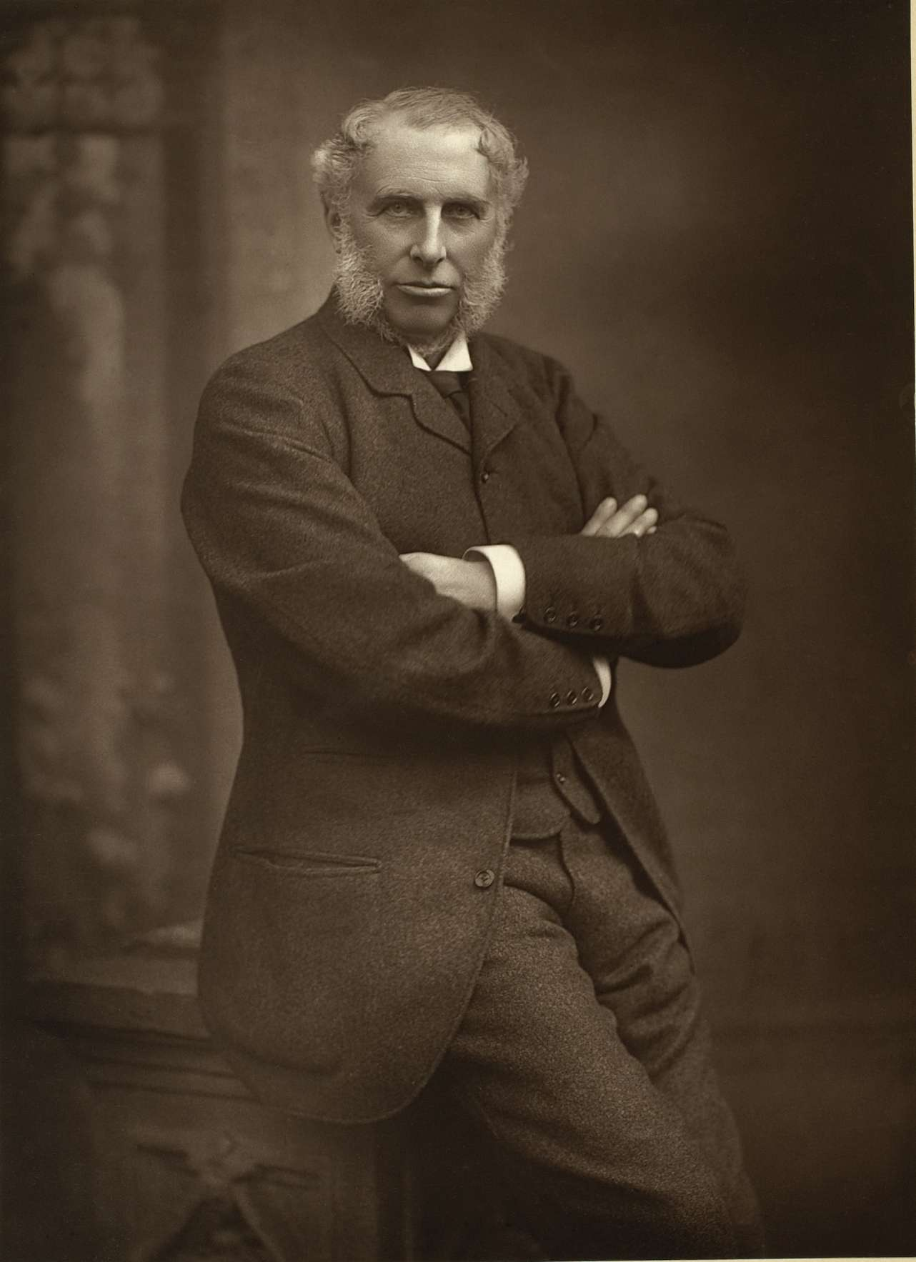 Mr. Justice Sir Arthur Kekewich (1832-1907), before 1888 Herbert R. Barraud British, 1845 - 1896 woodburytype 25.9 x 18.1 cm Purchased 1981 National Gallery of Canada (no. 23895.138)